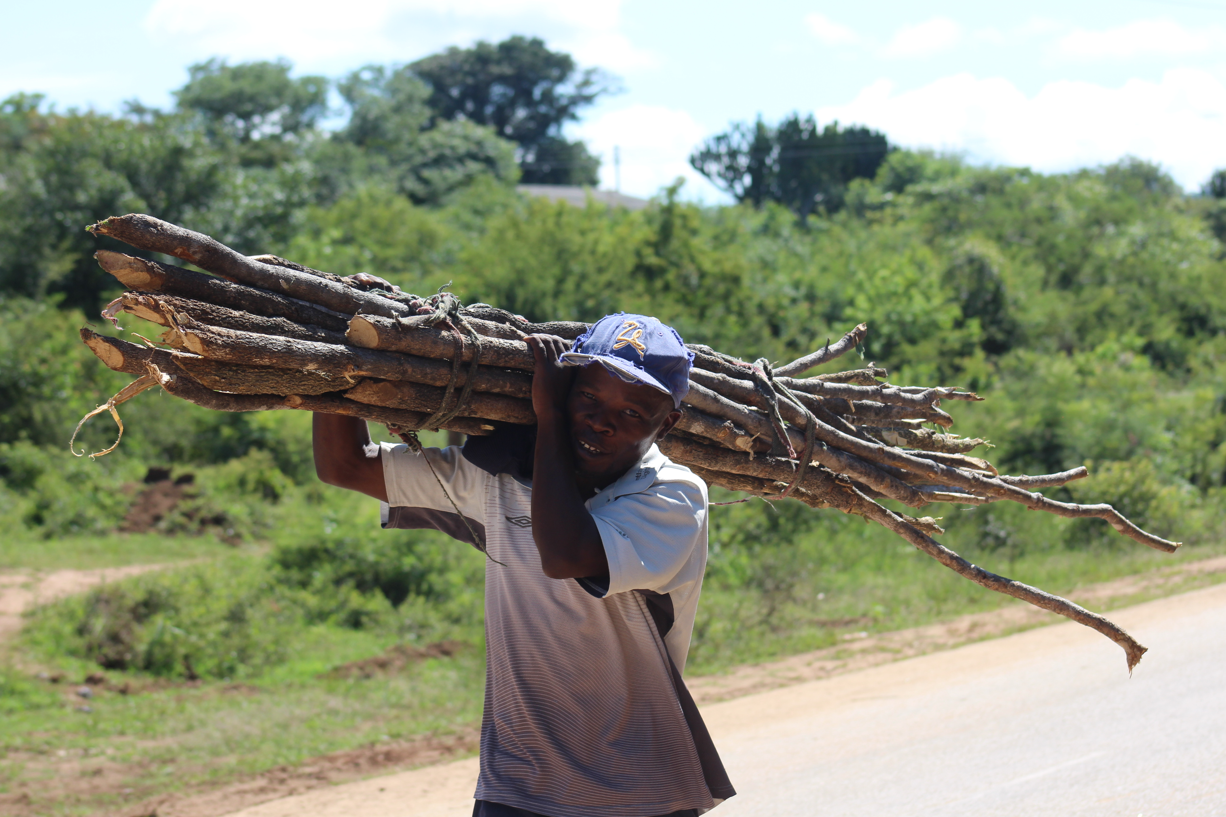 a man carries poles home in Chimanimani after cyclone Idai destroyed his home This is an image with the theme "Africa on the Move or Transport" from: Zimbabwe